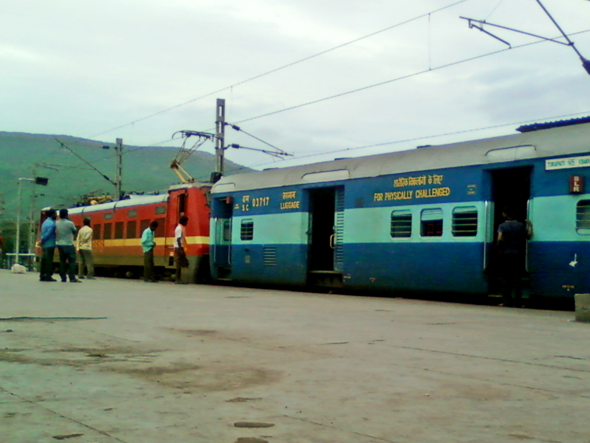 17488 Tirumala Express with a WAP-4 loco at Visakhapatnam Train station, Andhra Pradesh